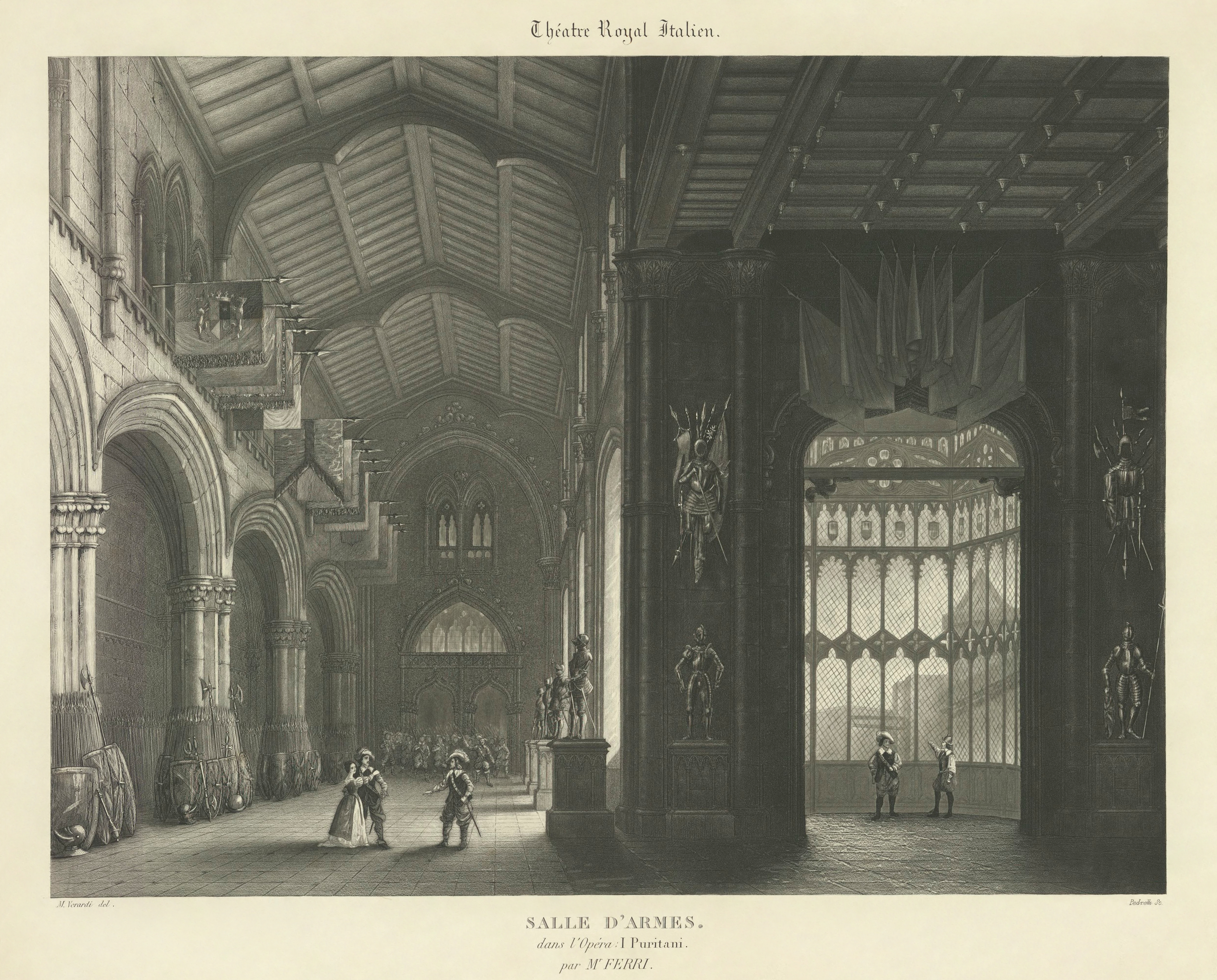 "Théatre Royal Italien. Salle d'armes dans l'Opéra I Puritani" - a.k.a. Act I, Scene 3, as it appeared in the première perfomance of Vincenzo Bellini's I puritani. Aquatint, 35.1 x 42 cm.